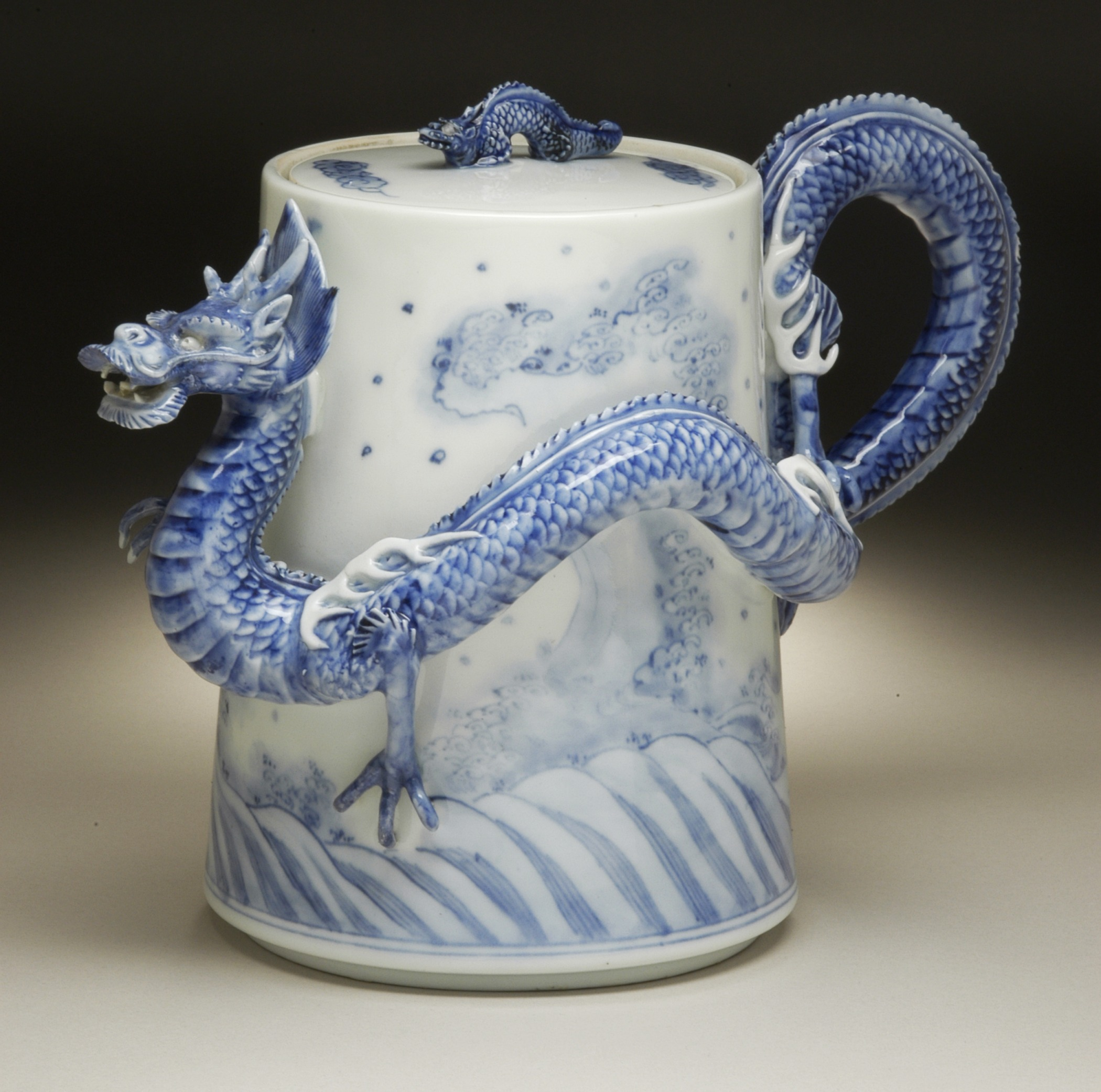 Japan, second half of 19th century Furnishings; Serviceware Porcelain with underglaze blue Gift of Allan and Maxine Kurtzman (M.2002.147.3a-b) Japanese Art